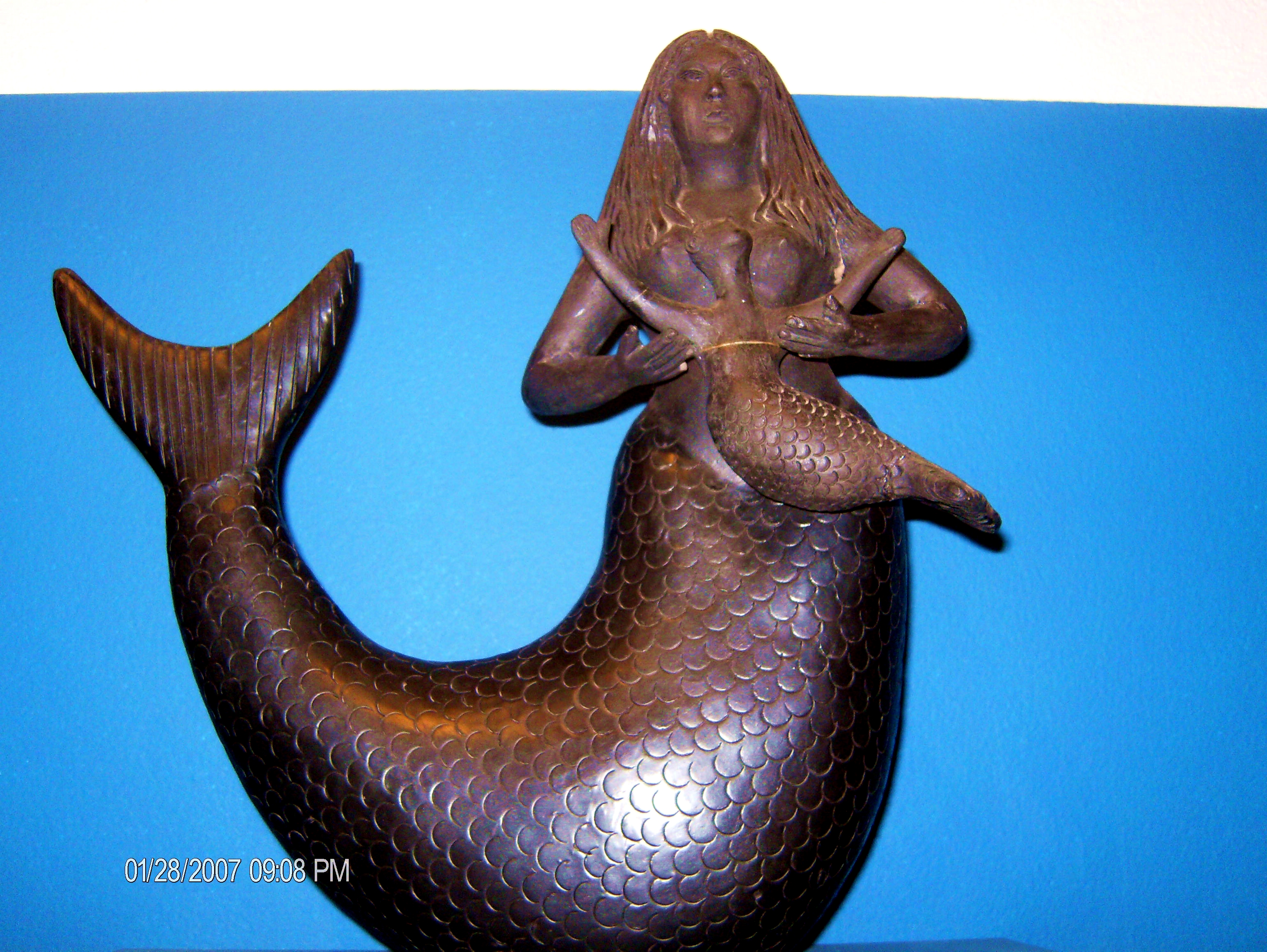 Artesania Expuesta